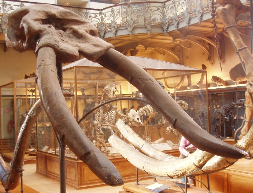 Skull of Cuvieronius hyodon.